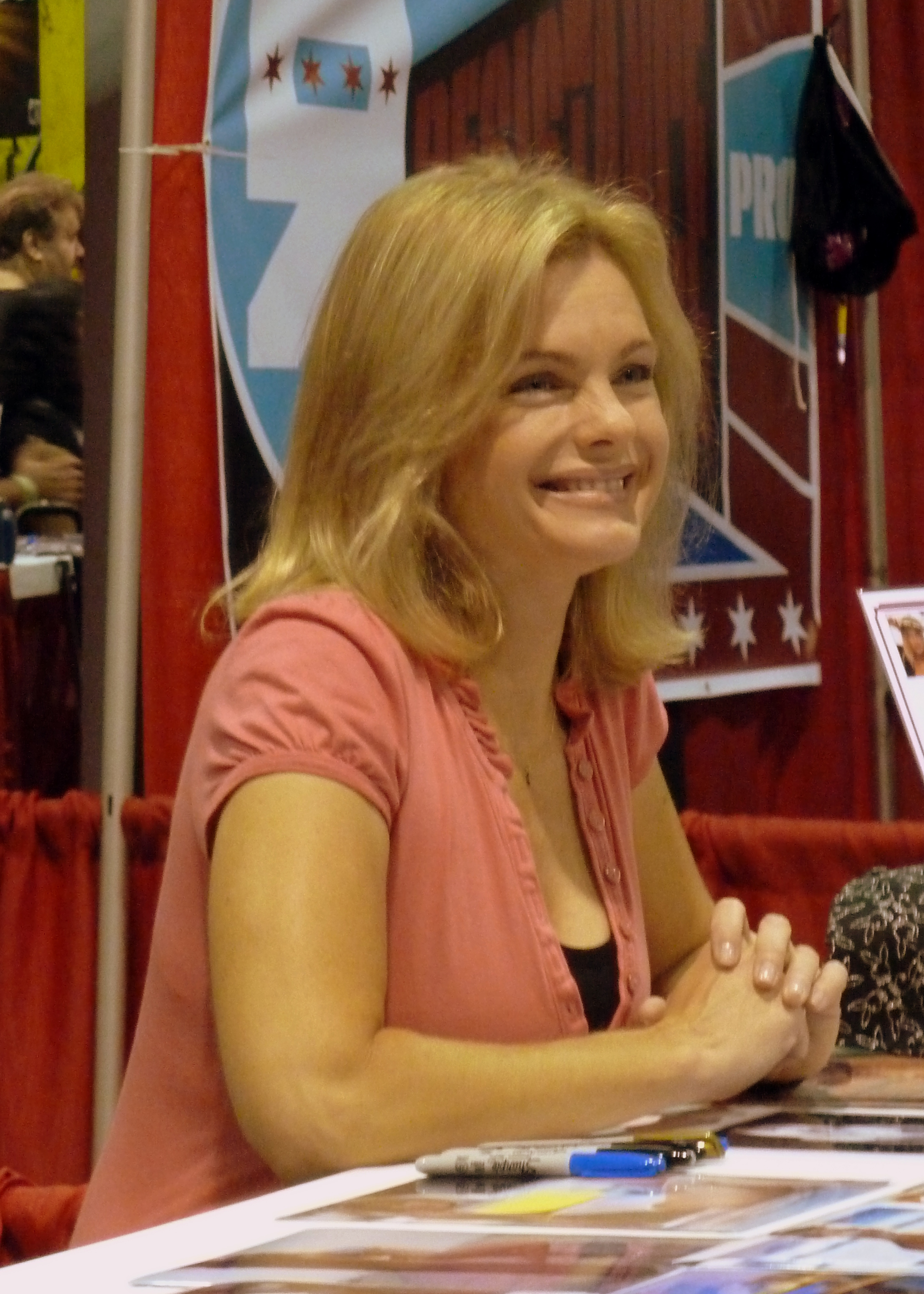 Guest at Wizard World Chicago 2011.